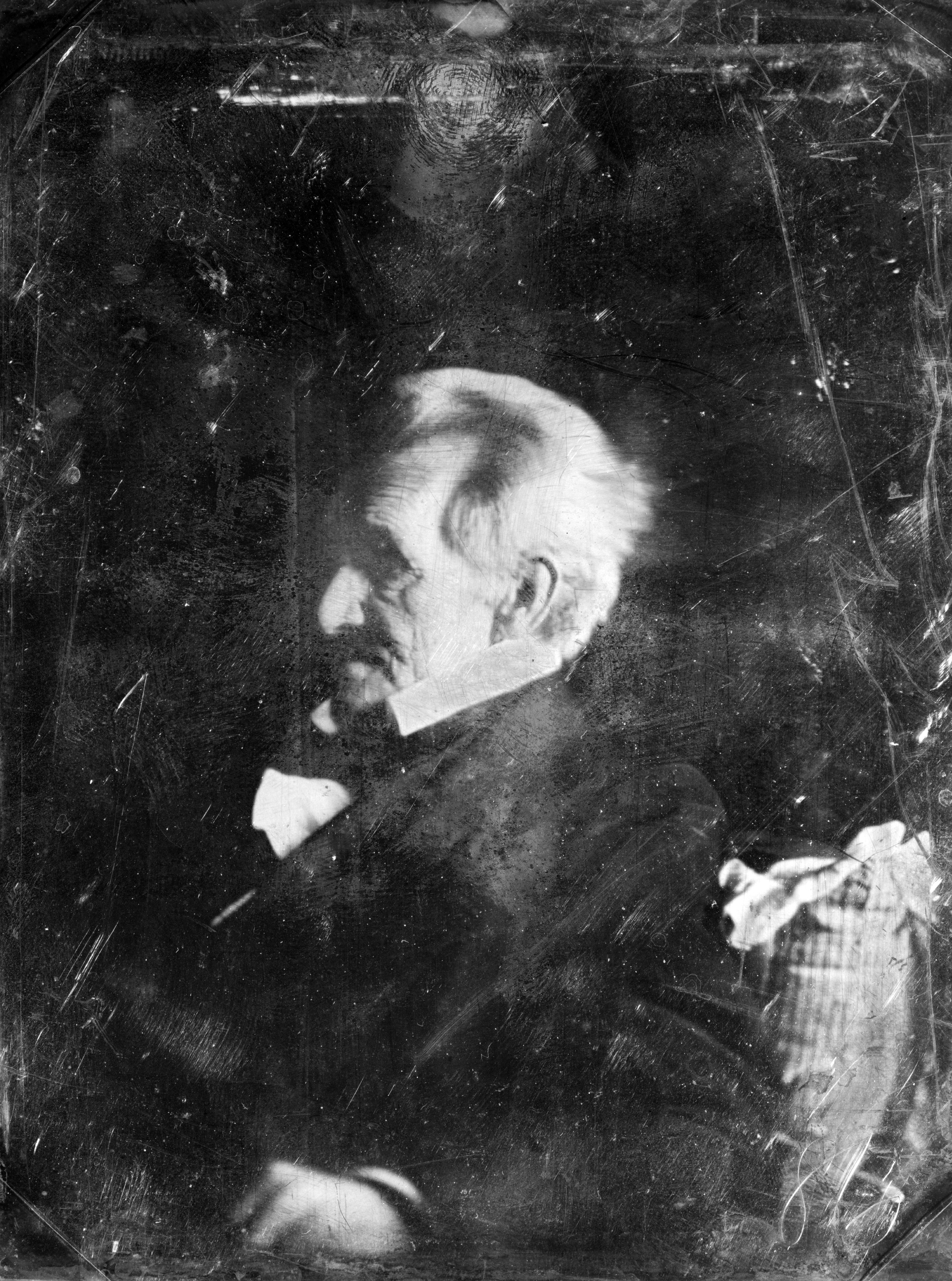 Portrait of Andrew Jackson (1767-1845)